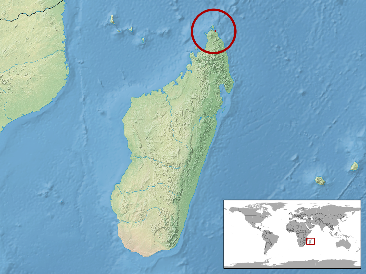 geographic distribution of Paracontias rothschildi